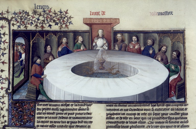 King Arthur's knights, gathered at the Round Table to celebrate the Pentecost, see a vision of the Holy Grail. The Grail appears as a veiled ciborium, made of gold and decorated with jewels, held by two angels. From a manuscript of Lancelot and the Holy Grail.